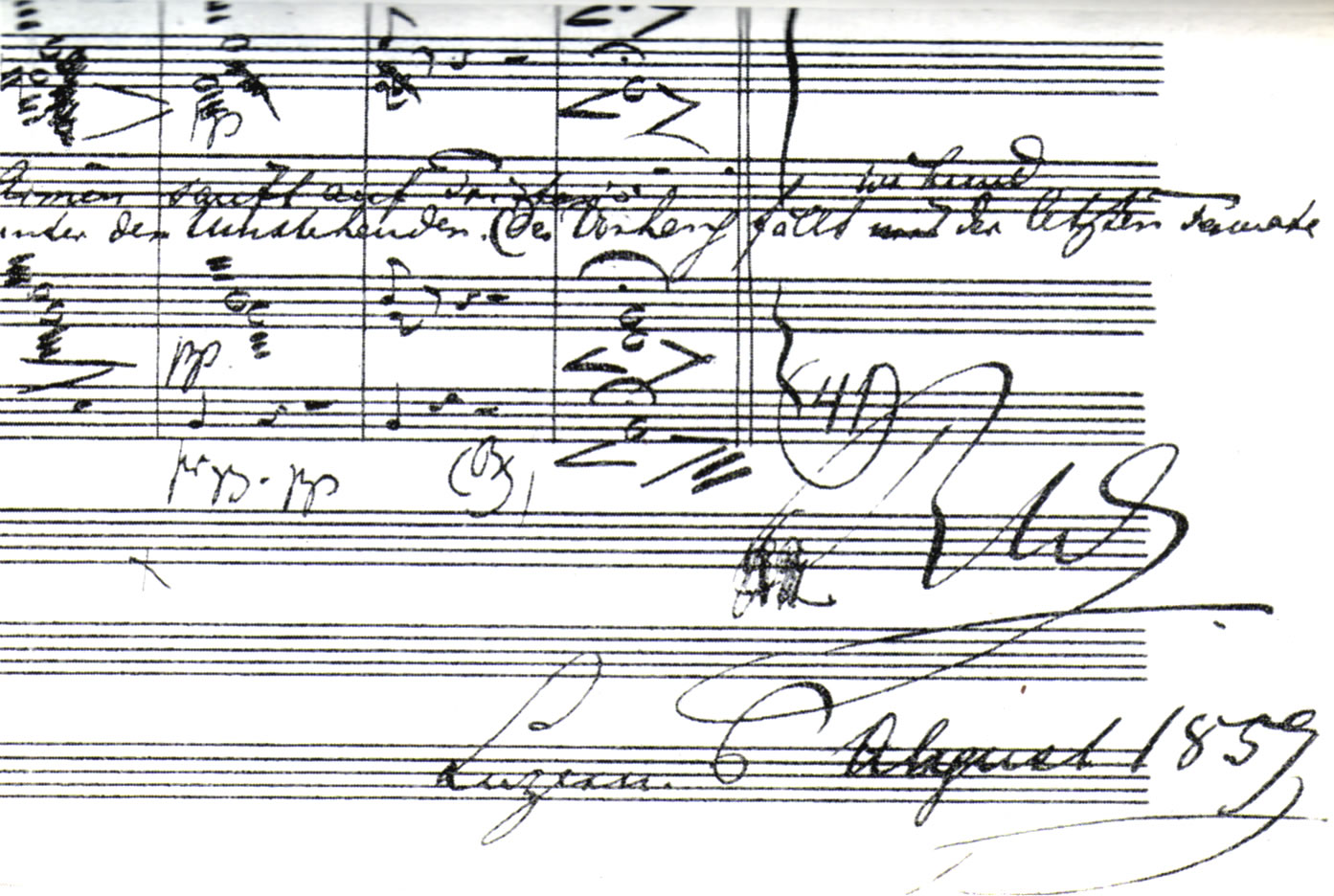 Facsimile from the manuscript final bars of Tristan und Isolde by Richard Wagner